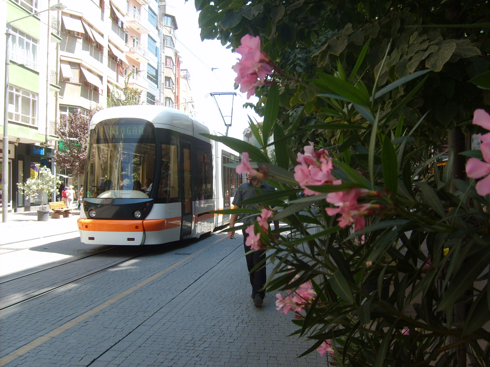 Eskişehir Doktorlar Street